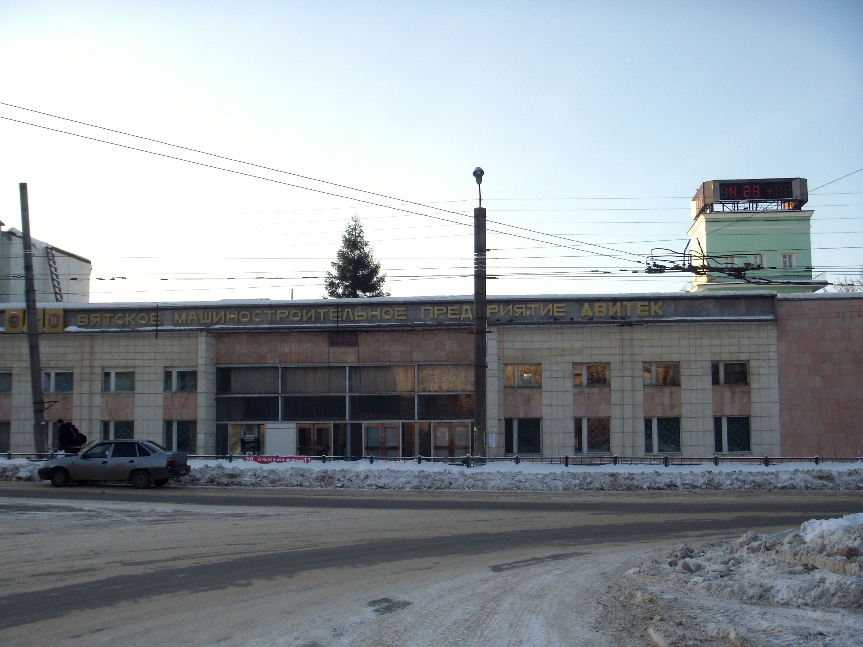 Central factory gate «Avitec»